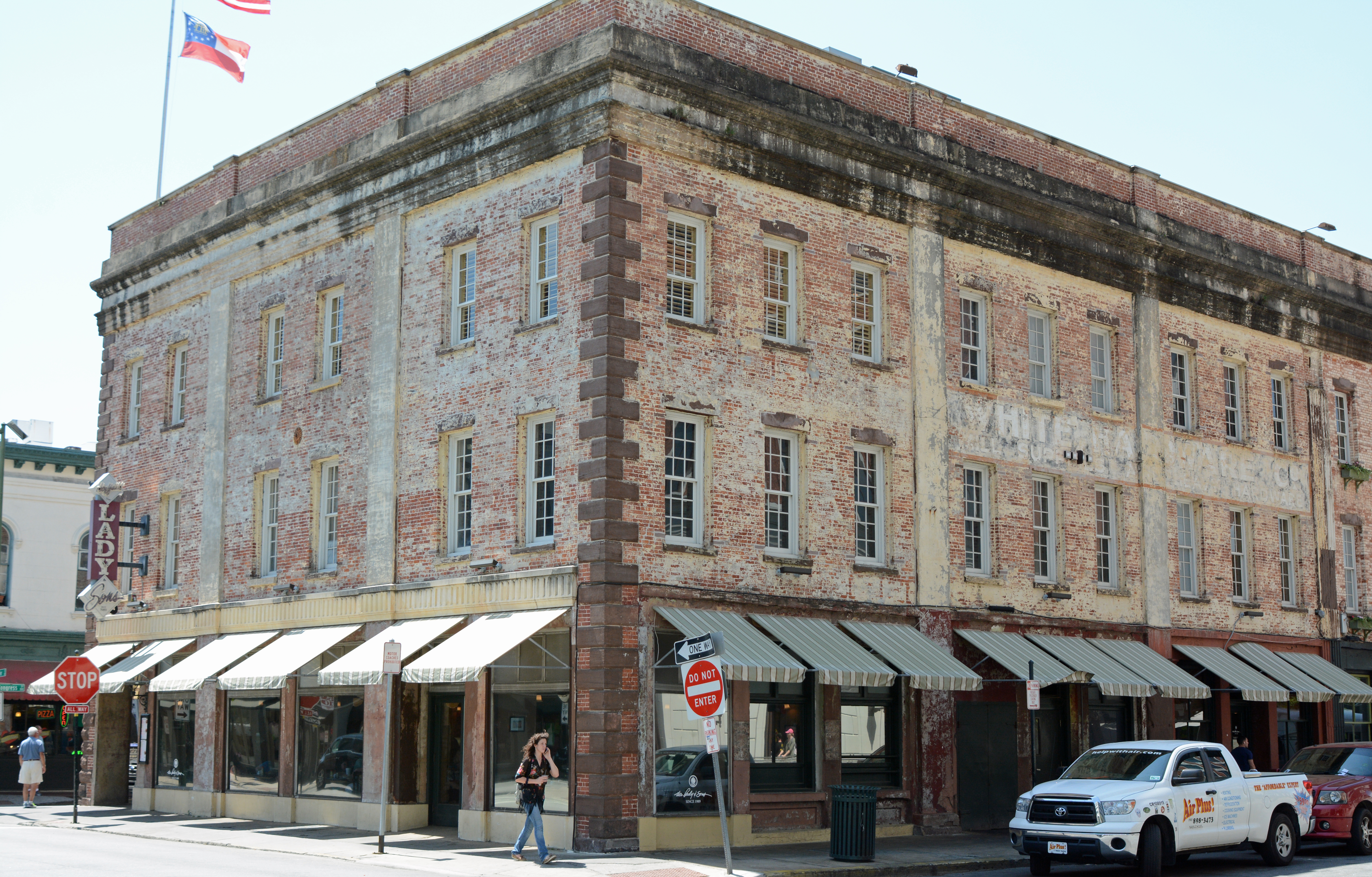 Paula Deen's Painted Lady & Sons resturant in Savannah, Georgia, US